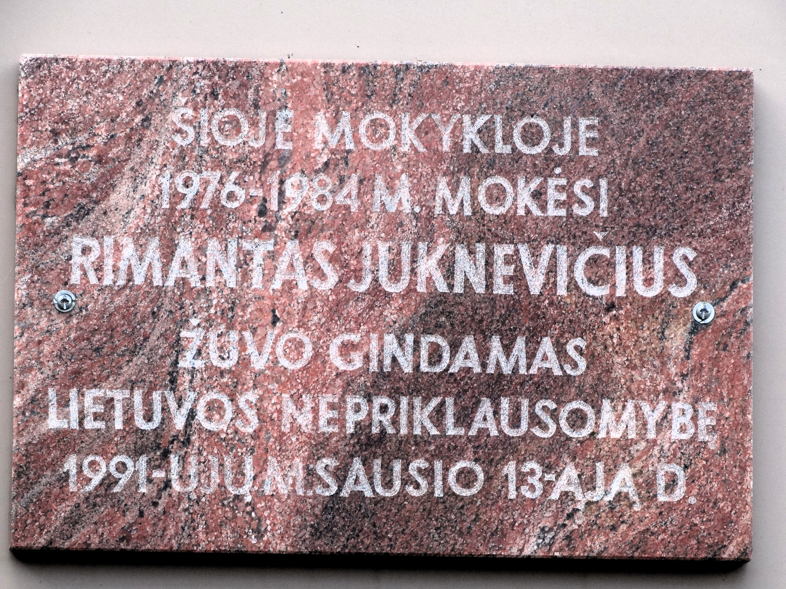 Rimantas Juknevičius memorial plaque, Sūduva Gymnasium, Marijampolė, Lithuania